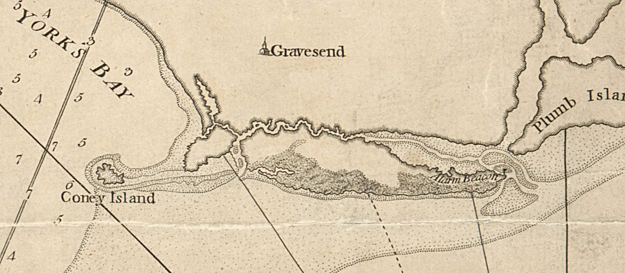 Edited detail of a 1776 map showing historic Coney Island and surroundings of lower Brooklyn, New York City. Depths shown by soundings. Relief shown by hachures. Citation/Reference: Phillips 1209 Appears in The North-American pilot for New England, New York, Pensilvania, Maryland, and Virginia. 1777.